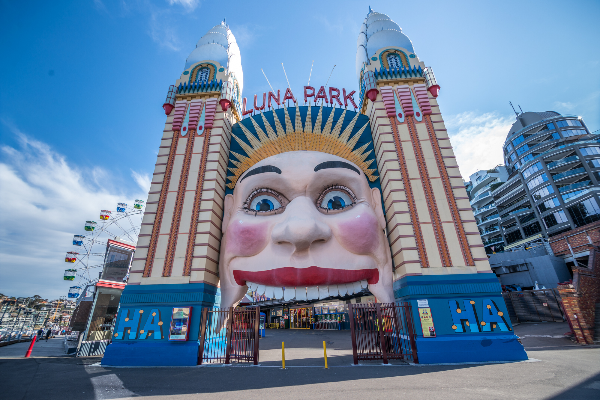 Luna Park, North Sydney, Australia